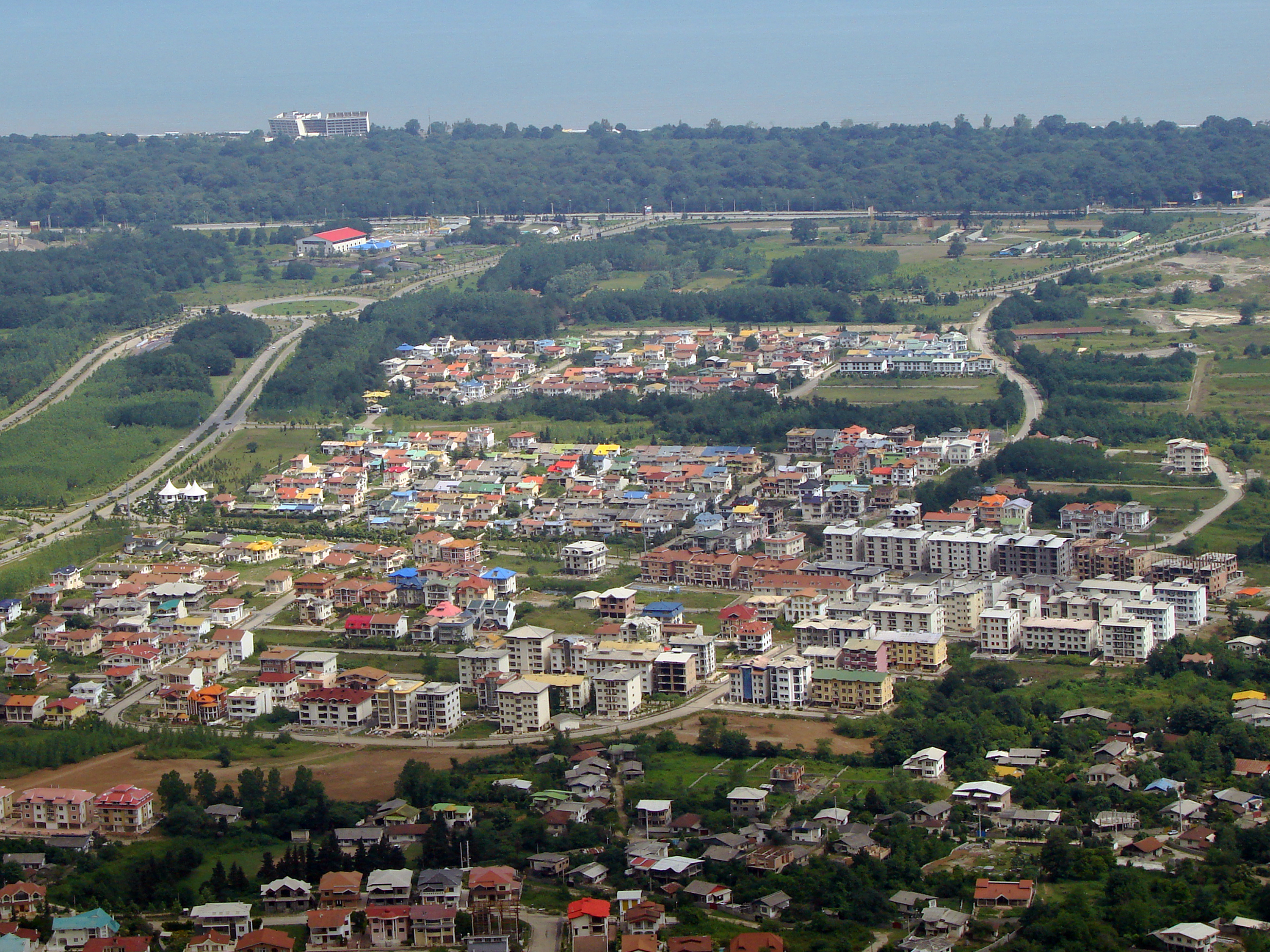 Shahrak-e Namak Abrud is a touristic village and has an aerial tramway which starts at the sea level near the shores of the Caspian Sea and ends on the top of the Alborz heights crossing dense forest area of northern Iran. There are numerous villa cities around it which form a vacation region for the people of Tehran.